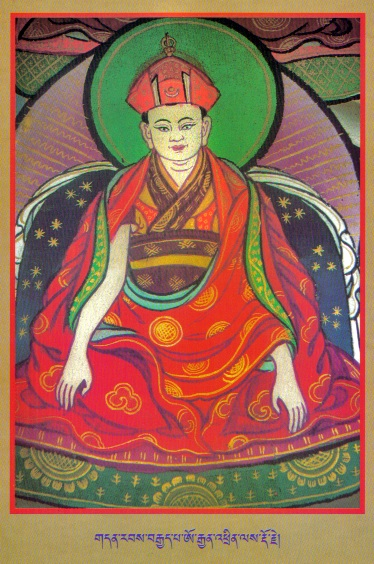 The Eighth Gangteng, Orgyen Trinle Dorje b.1906 - d.1949